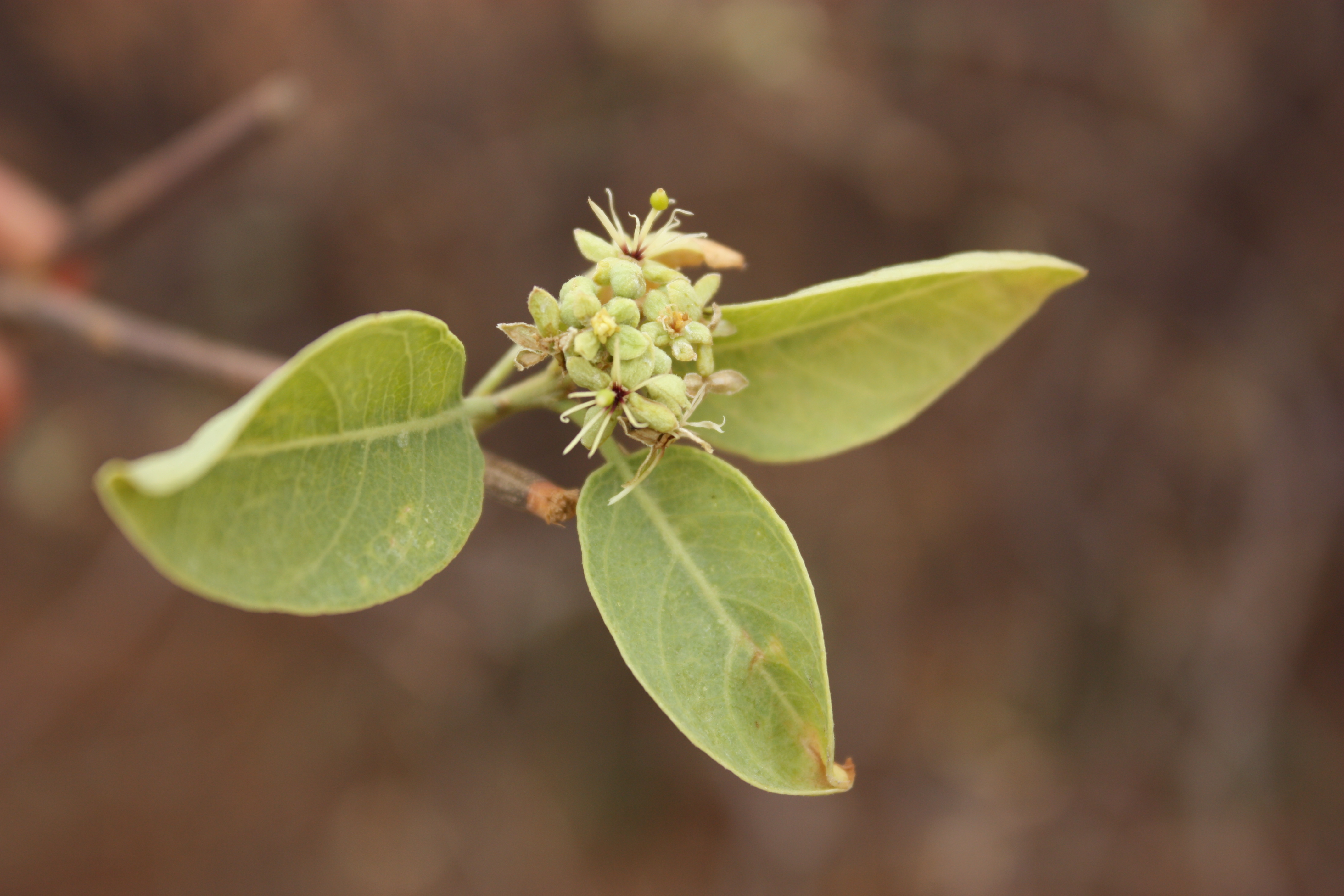 inflorescence of Boscia senegalensis, NW Burkina Faso